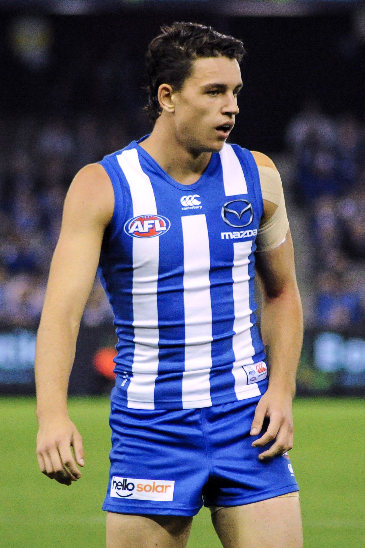 Luke Davies-Uniacke during the AFL round six match between North Melbourne and Port Adelaide on Saturday, 28 April 2018 at Etihad Stadium in Melbourne, Victoria.